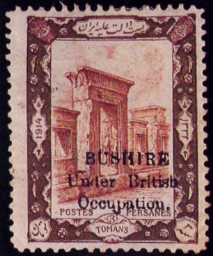 A 1915 stamp of Persia overprinted for use in Bushire.